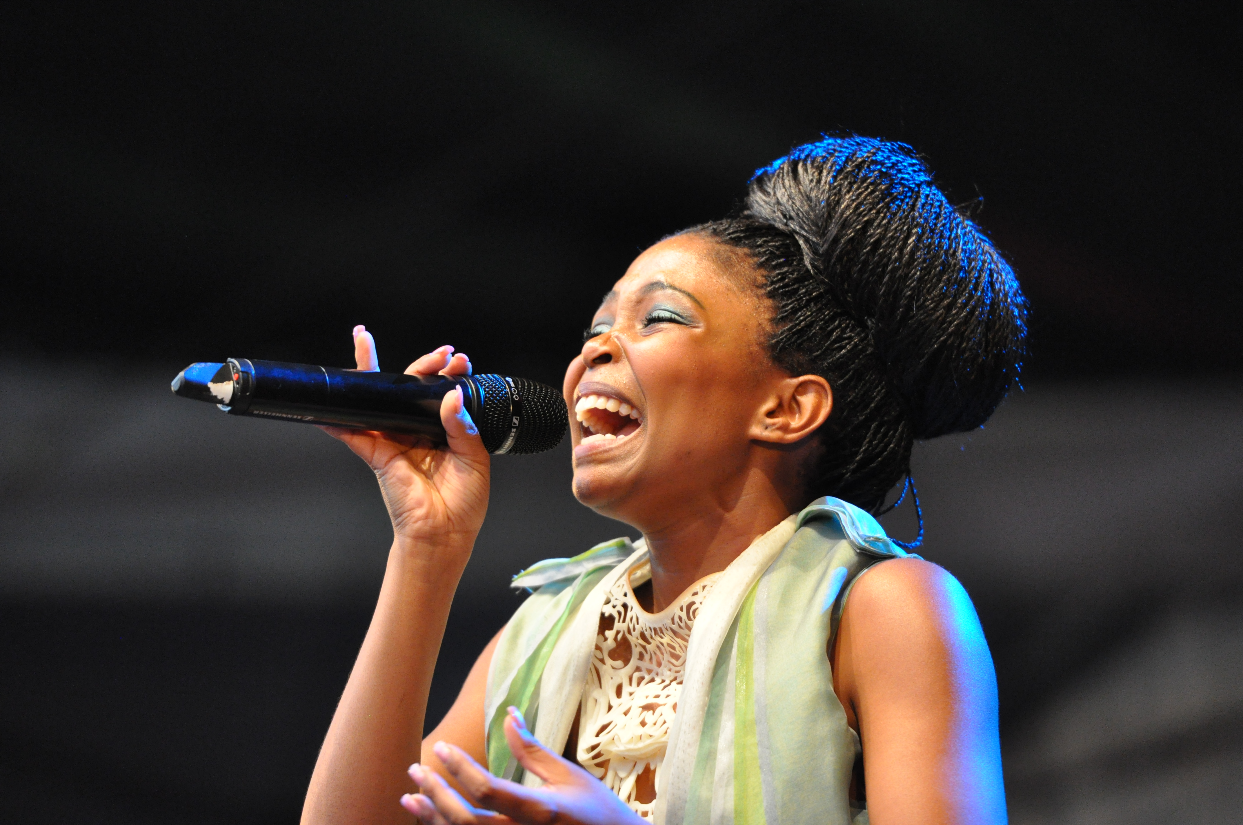 Nomfusi (Republic of South Africa), appearance at the 39th music festival "Bardentreffen" 2014 in Nuremberg, Germany, Hauptmarkt stage